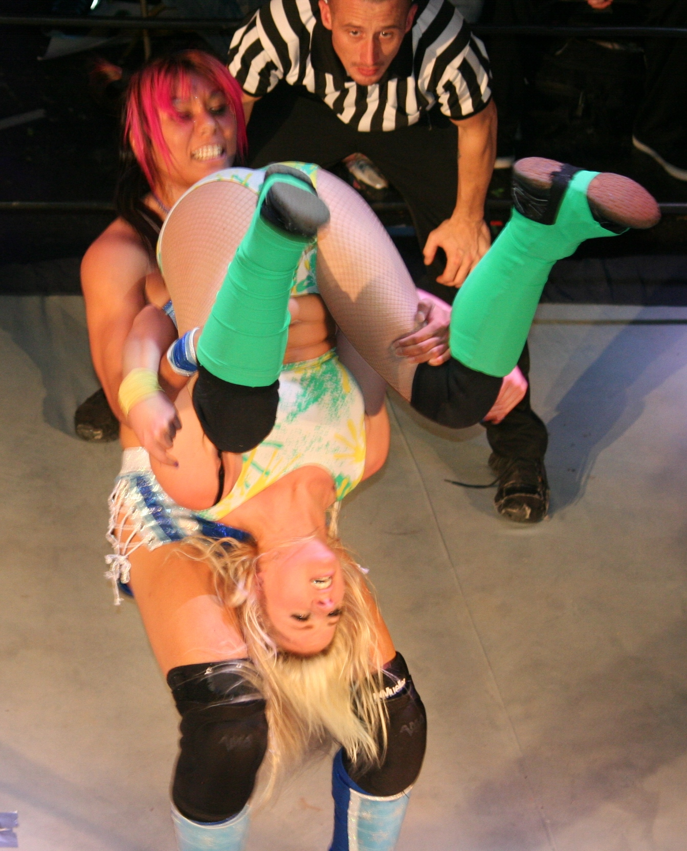 Mia Yim performing a package piledriver on Candice LeRae at a Queens of Combat show in November 2014.